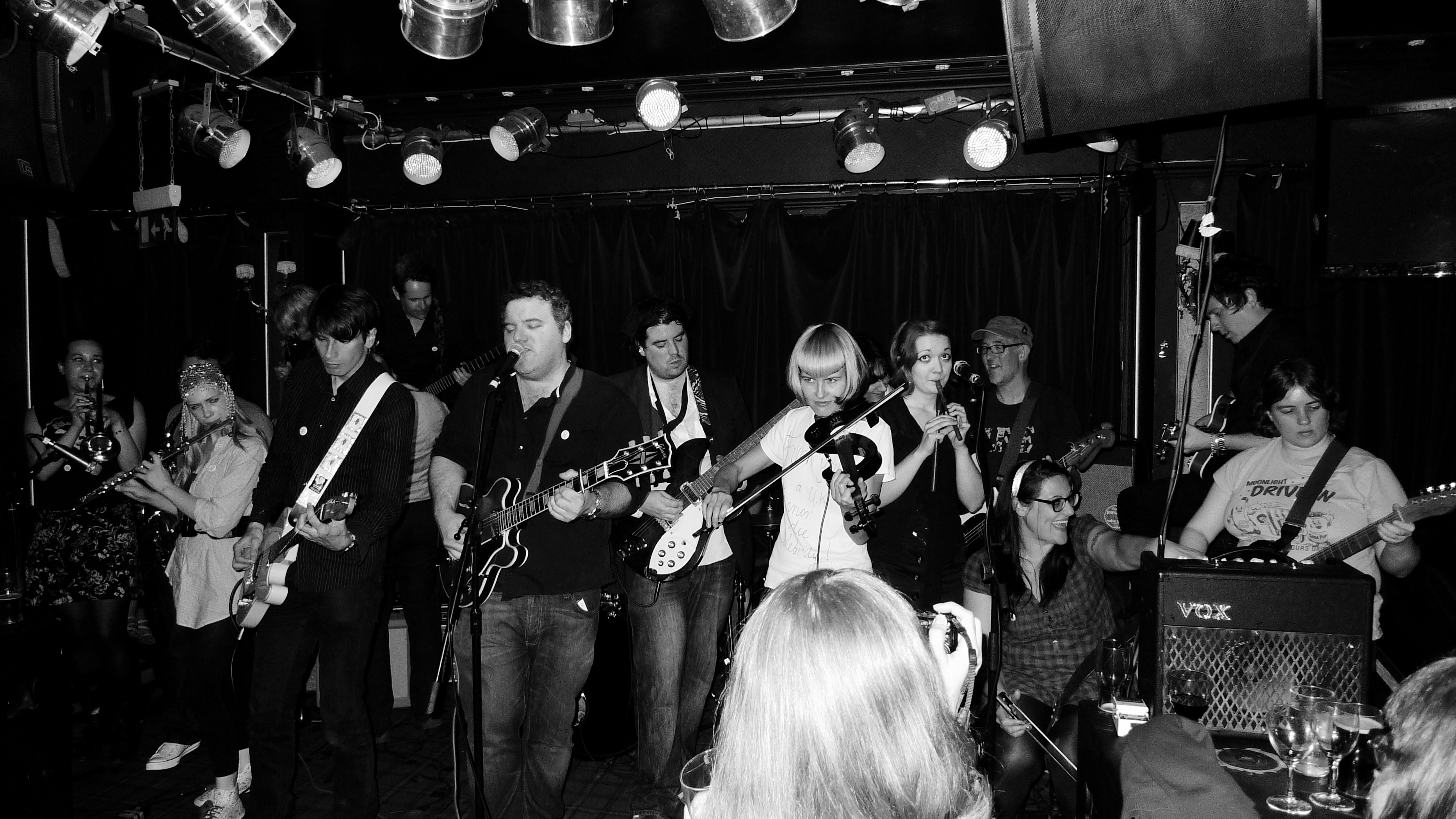 The band performing at the Monarch in Camden in 2011.